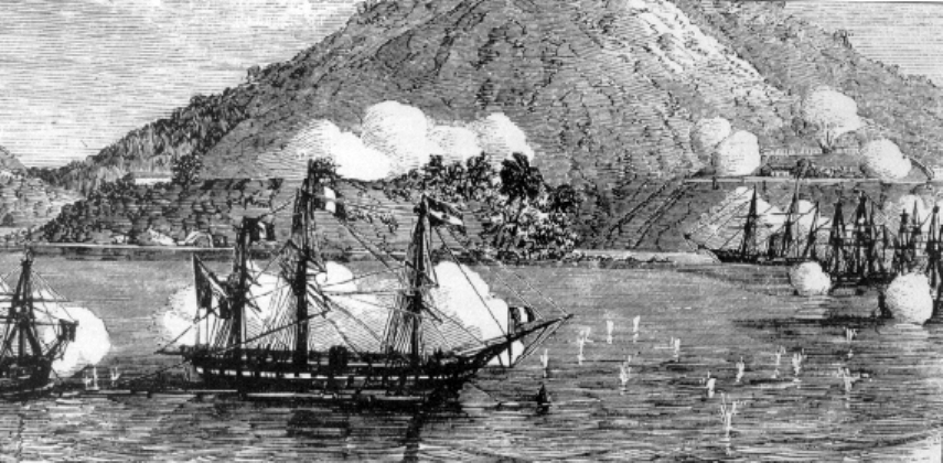 French_ships_at_Danang_1858